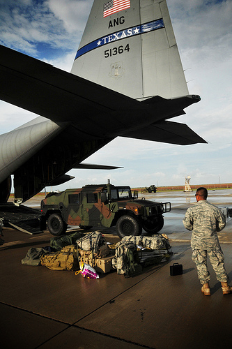 A member of the 147th Reconnaissance Wing, Air Support Operations Squadron (ASOS) Ellington Joint Reserve Base, Houston Texas, observes equipment and vehicles offloading from a C-130H assigned to the 136th Airlift Wing, Naval Air Station Joint Reserve Base For Worth, Tx at Valley International Airport, Harlingen Texas June 29, 2010. The 147th RW/ASOS members were forward deployed ahead of the storm to facilitate air to ground communications between Texas Military Forces aviation assets and Texas Task Force One ground assets.